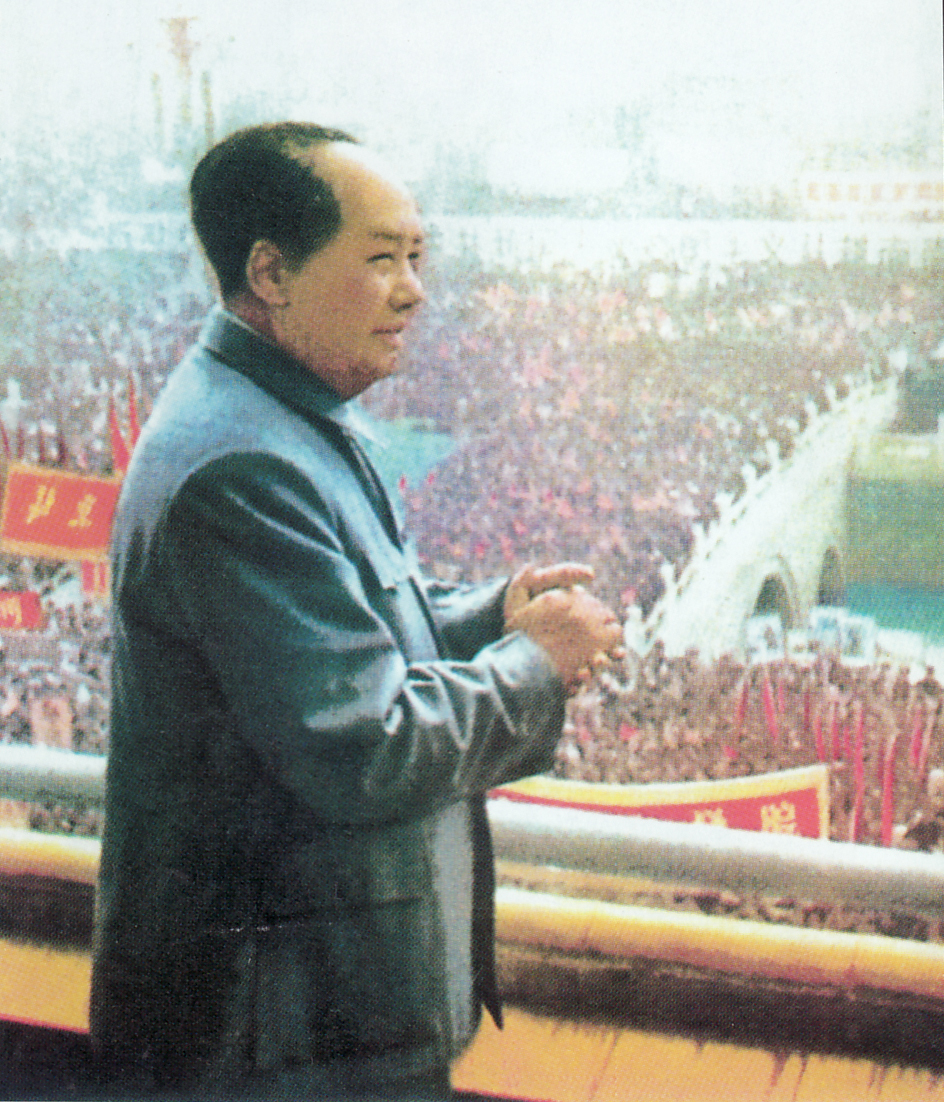 Photo of Mao Zedong in front of a crowd, from Quotations from Chairman Mao Tse-Tung